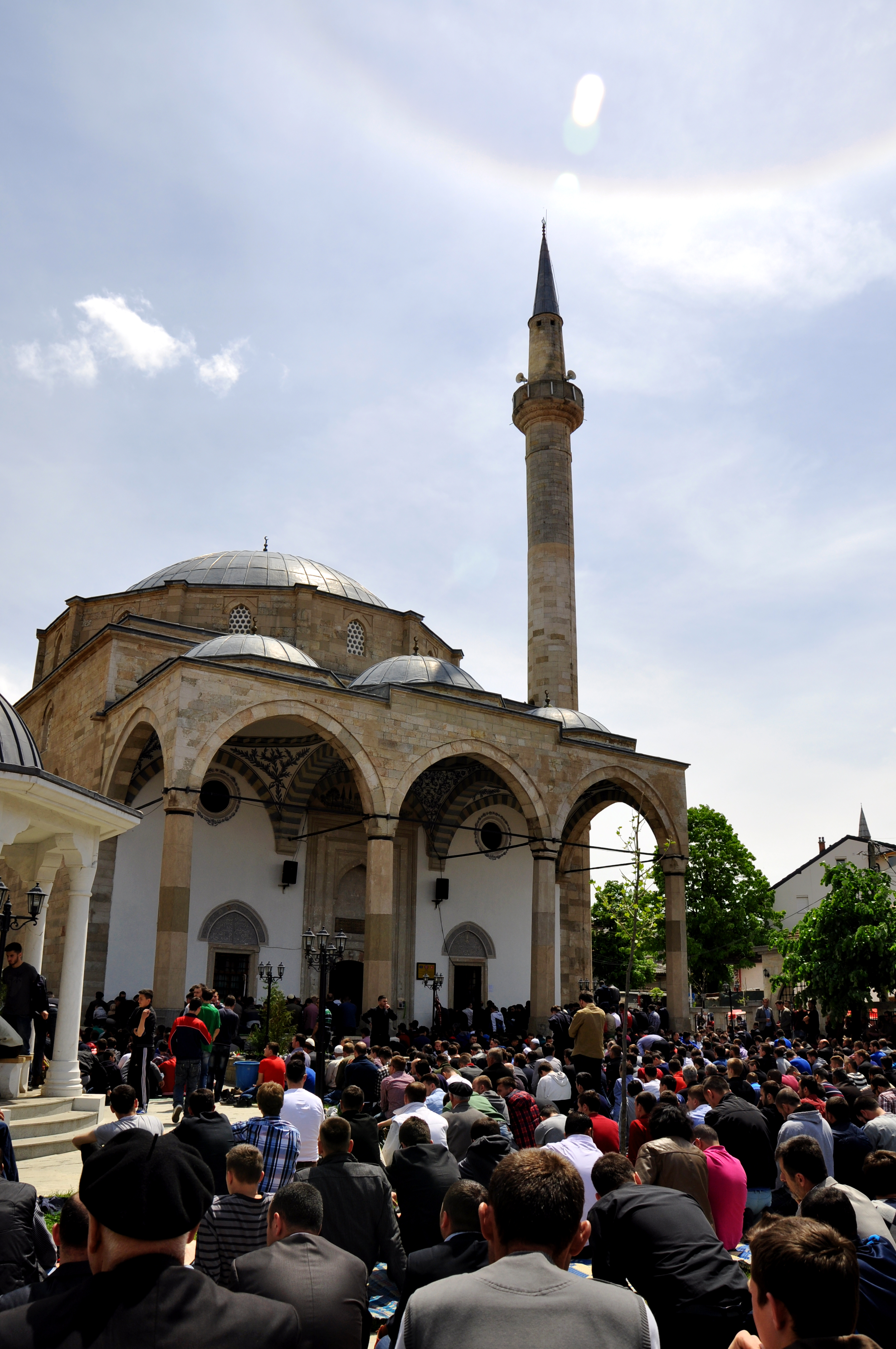 Sultan Murat Fatih Mosque